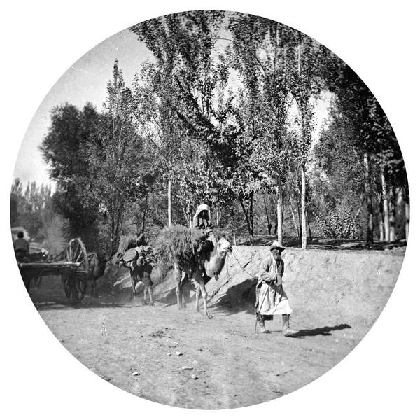 По дороге из Чиназа в Ташкент 1890 г.